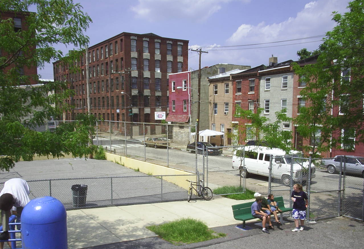 Playground in Philadelphia neighborhood of Kensington. Note vacant factories in background.